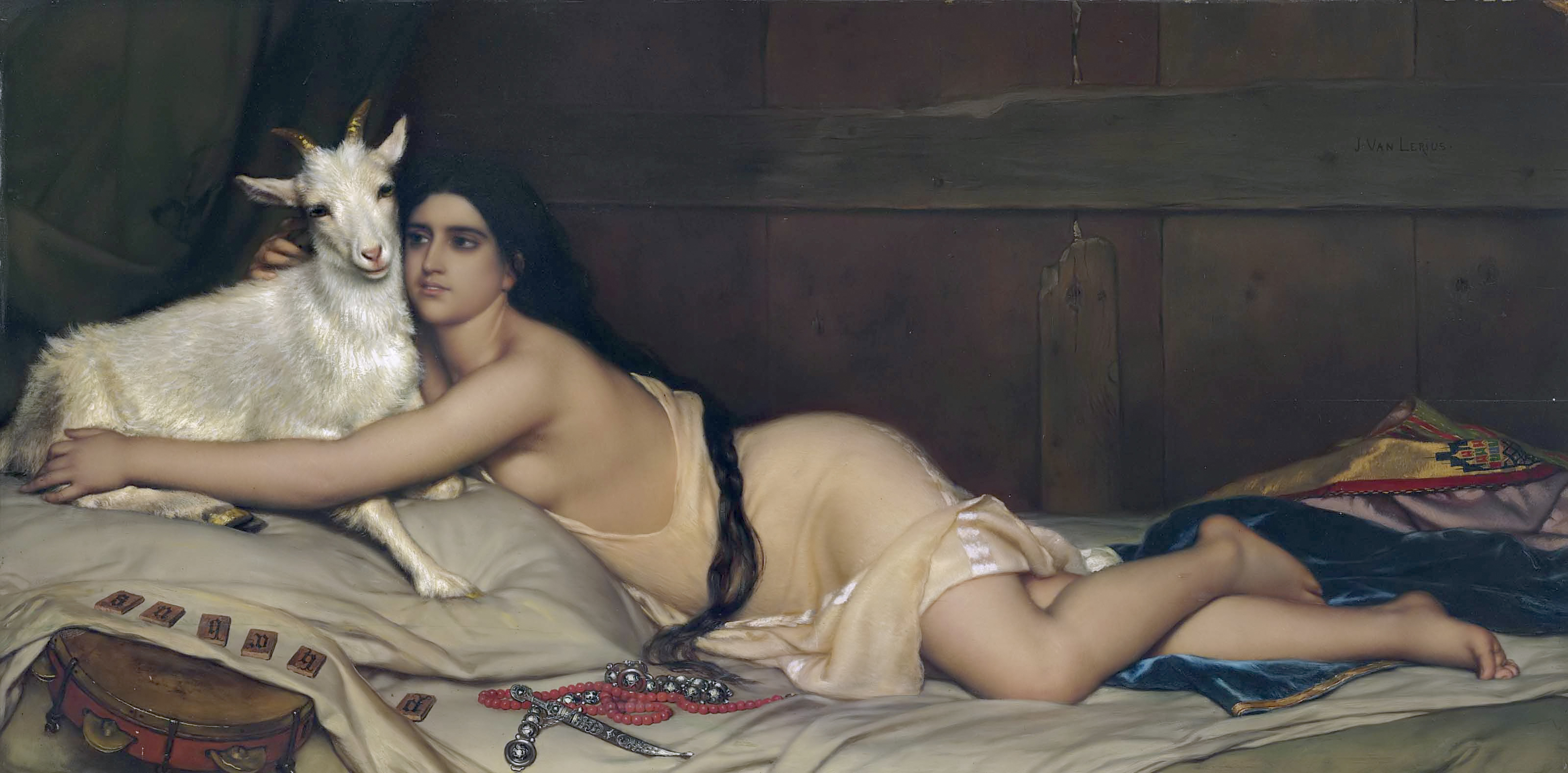 Esmeralda and Djali oil on panel 81.3 x 163.5 cm signed t.r.: J. Van Lerius 1886